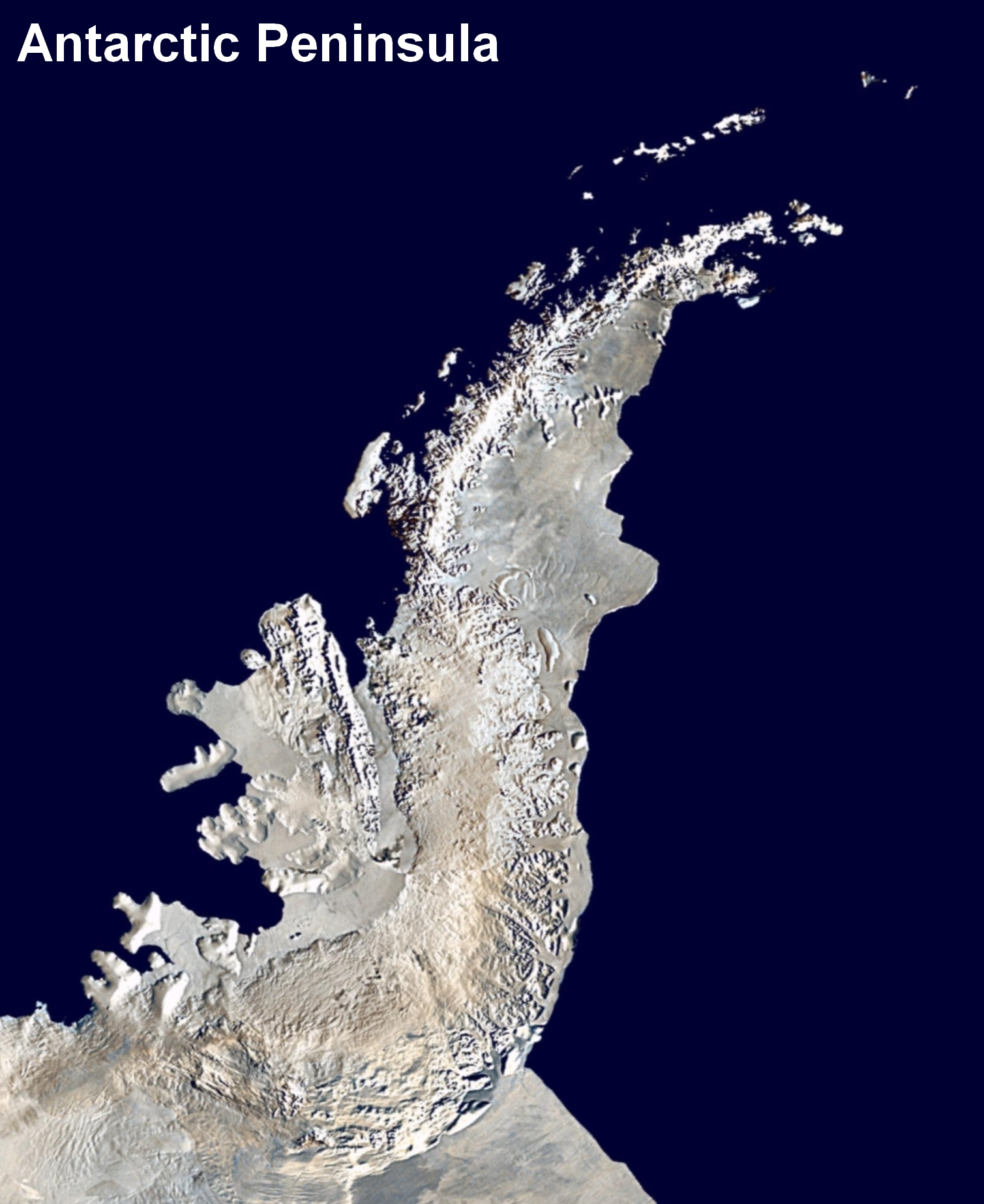 Antarctic Peninsula satellite image. An orthographic projection of NASA's Blue Marble data set (1 km resolution global satellite composite). "MODIS observations of polar sea ice were combined with observations of Antarctica made by the National Oceanic and Atmospheric Administration’s AVHRR sensor—the Advanced Very High Resolution Radiometer." Image was generated using a custom C program for handling the Blue Marble files, with orthographic projection formulas from MathWorld. The black pixels are presumed to be due to missing data in the land/sea mask used in making the original Blue Marble image. This is a retouched picture, which means that it has been digitally altered from its original version. Modifications: Cropped out Antarctic Peninsula from main image. The original can be viewed here: Antarctica 6400px from Blue Marble.jpg. Modifications made by Anna Frodesiak.